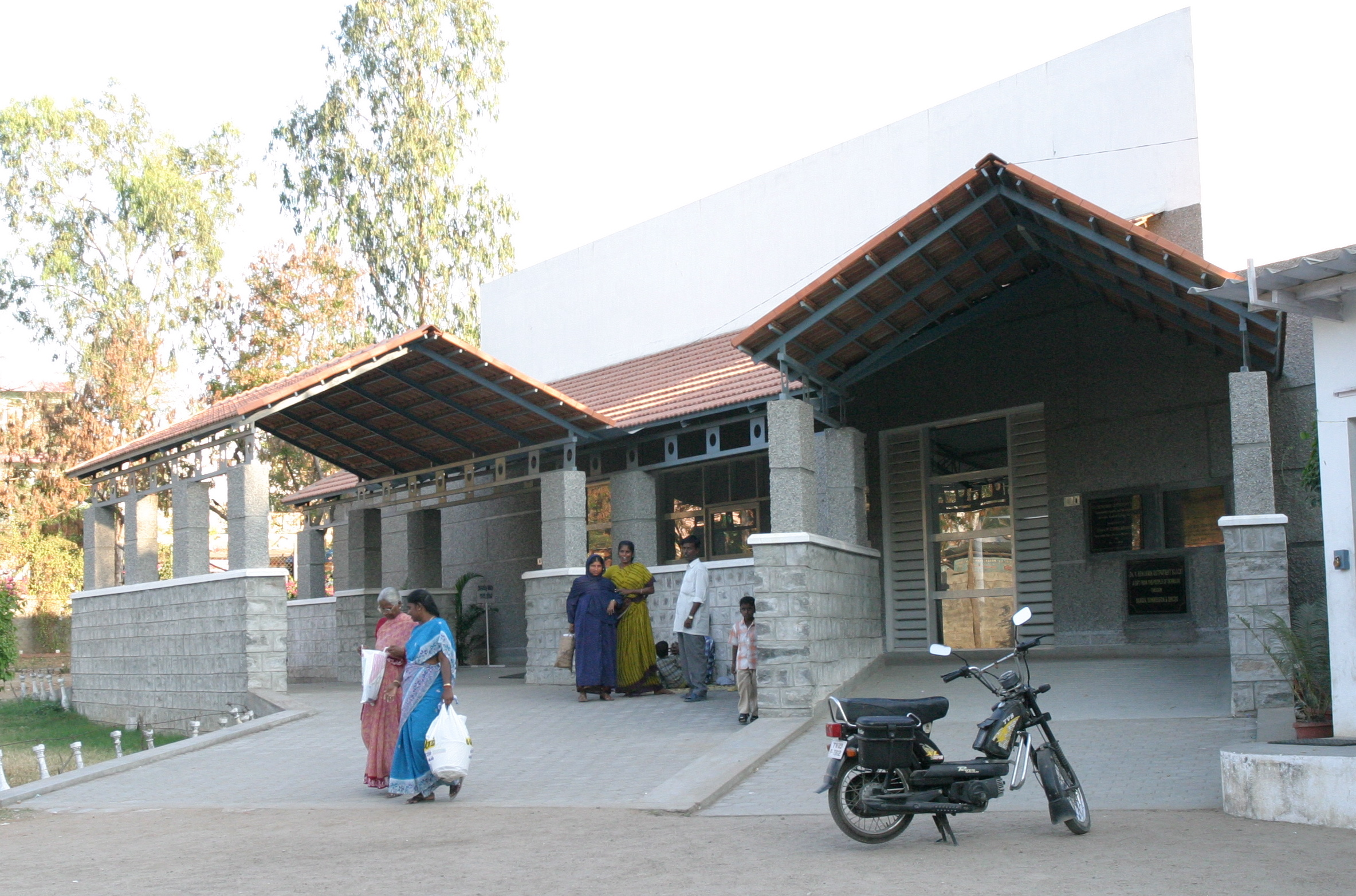 CHAD hospital in Bagayam, Tamil Nadu, India